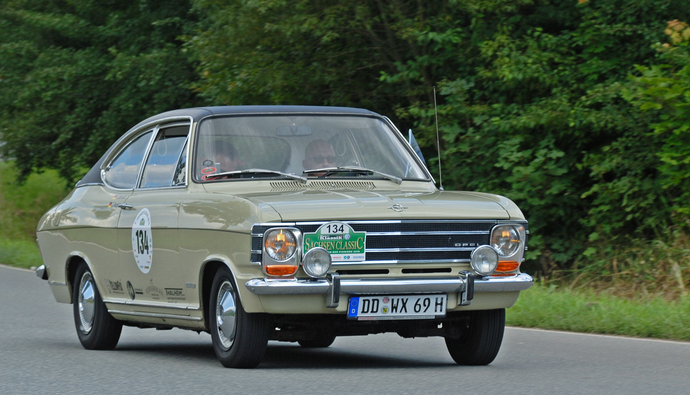 Opel Olympia A Coupe from 1969 during the Saxony Classic Rallye 2010.